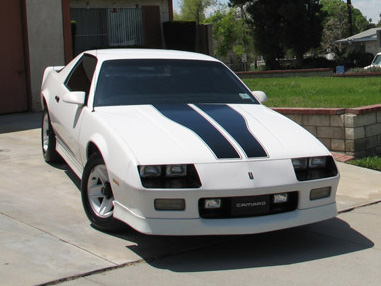 This is a picture of a 1990 Camaro RS. It is not a factory specific car since the RS cars in 1990 did not have Fog lights, a CAMARO grille, painted headlight buckets, or heritage stripes.